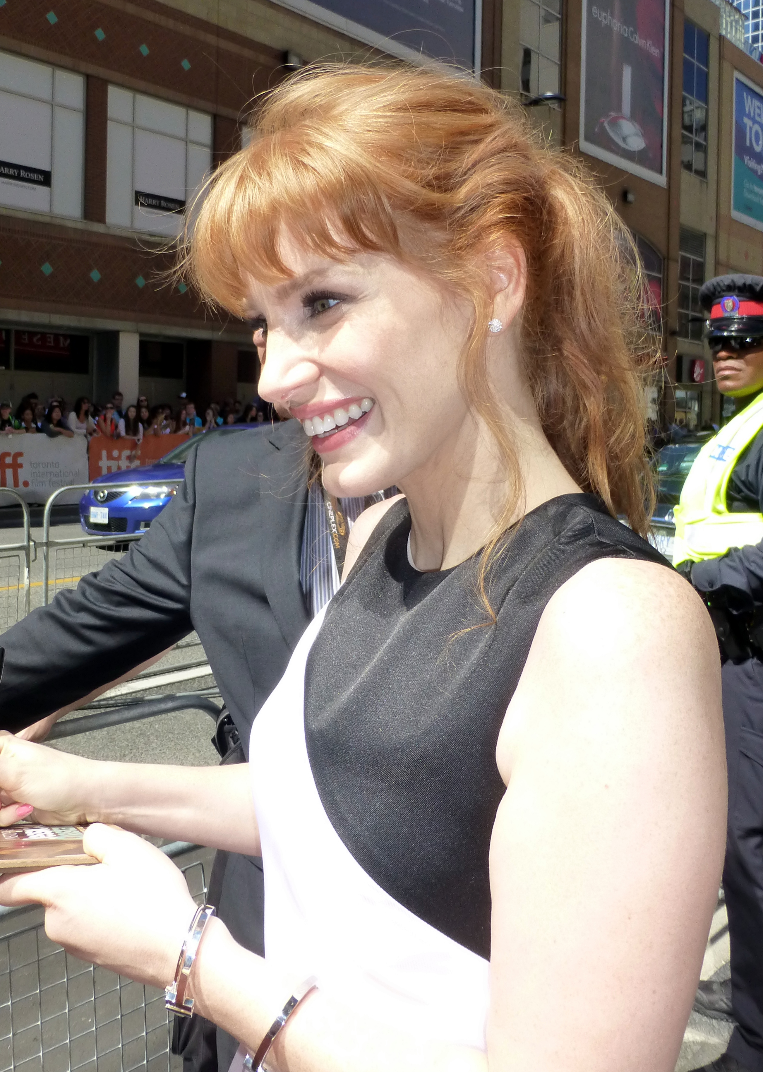 Jessica Chastain at the premiere of Miss Julie, 2014 Toronto Film Festival